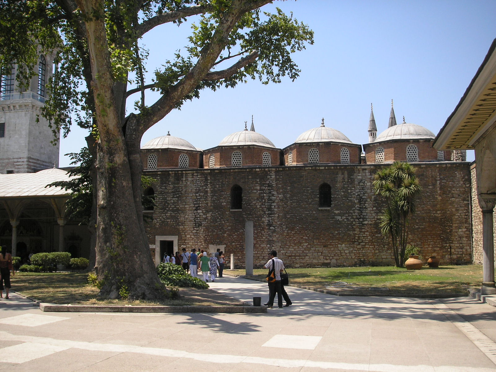 View onto the Tower of Justice and the Armory Exhibition Hall in Topkapi Palace, Istanbul.